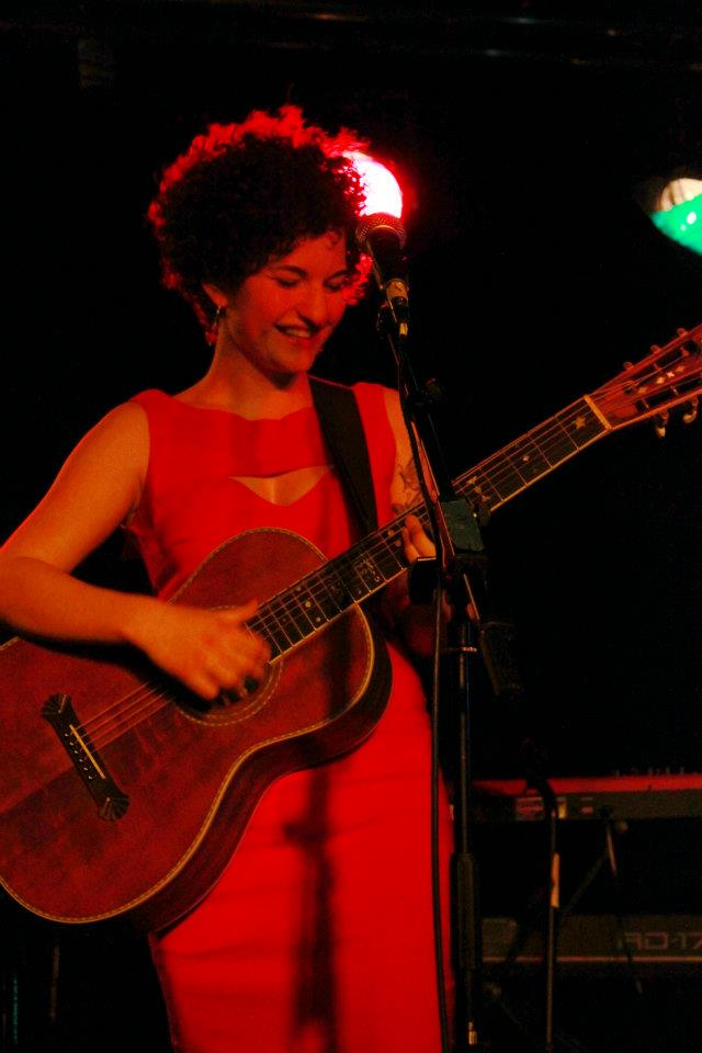 Carsie Blanton "Idiot Heart" release show Milkboy Philly 1/28/12